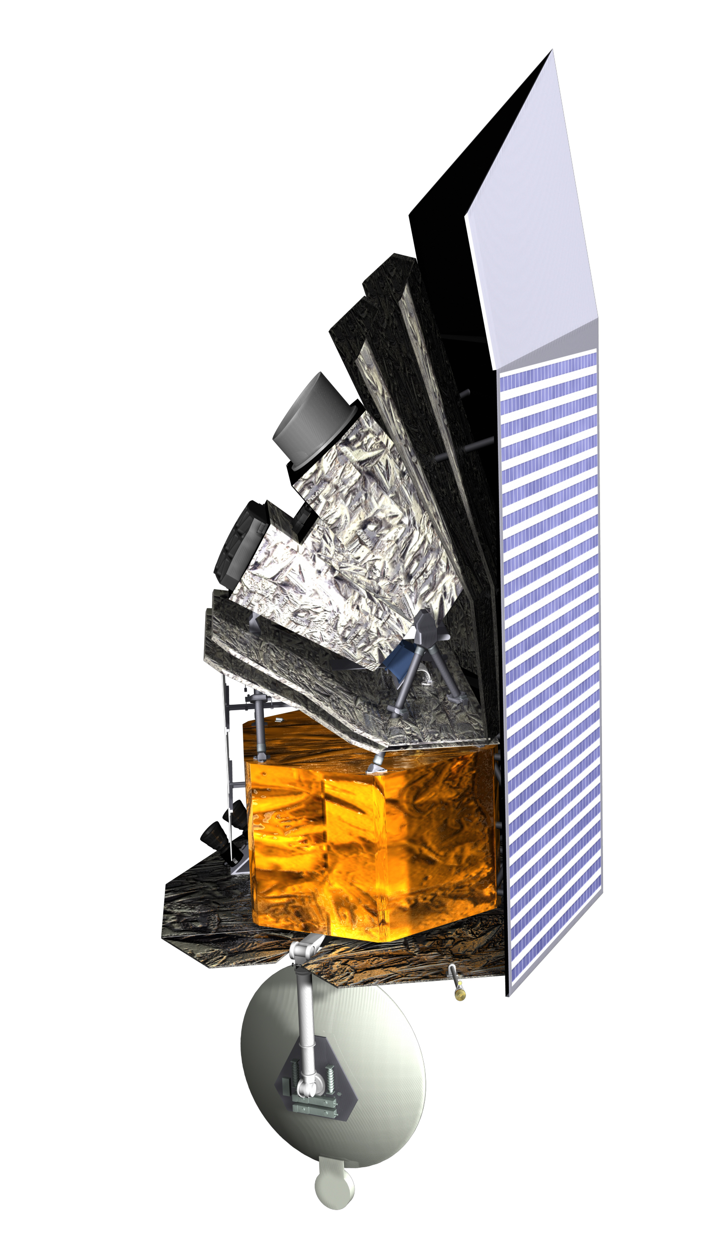 The Sentinel Space Telescope, being built by the B612 Foundation.